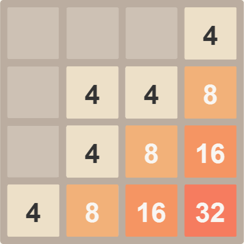 The Monotonicity technique in a 2048 game